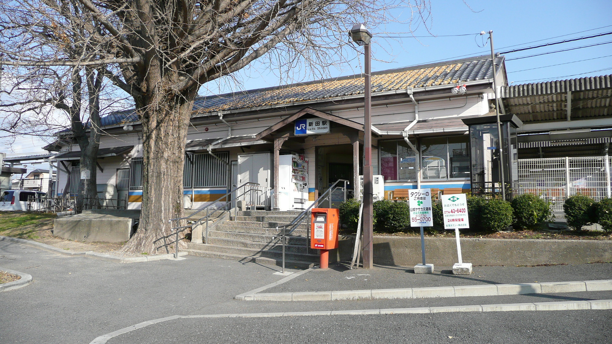 West Japan Railway Nara Line Shinden Station